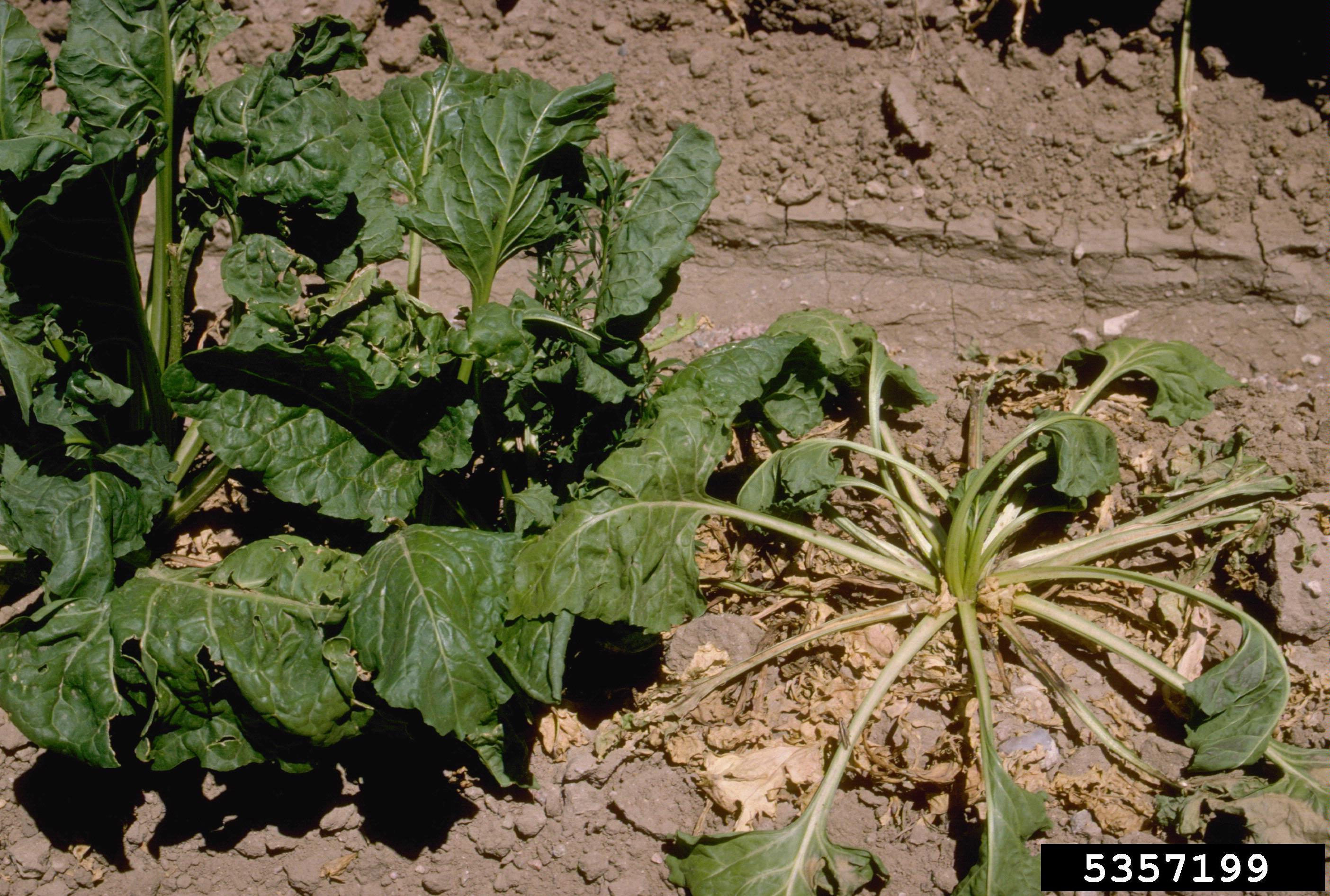 Rhizoctonia solani (syn. Thanatephorus cucumeris) symptoms beet